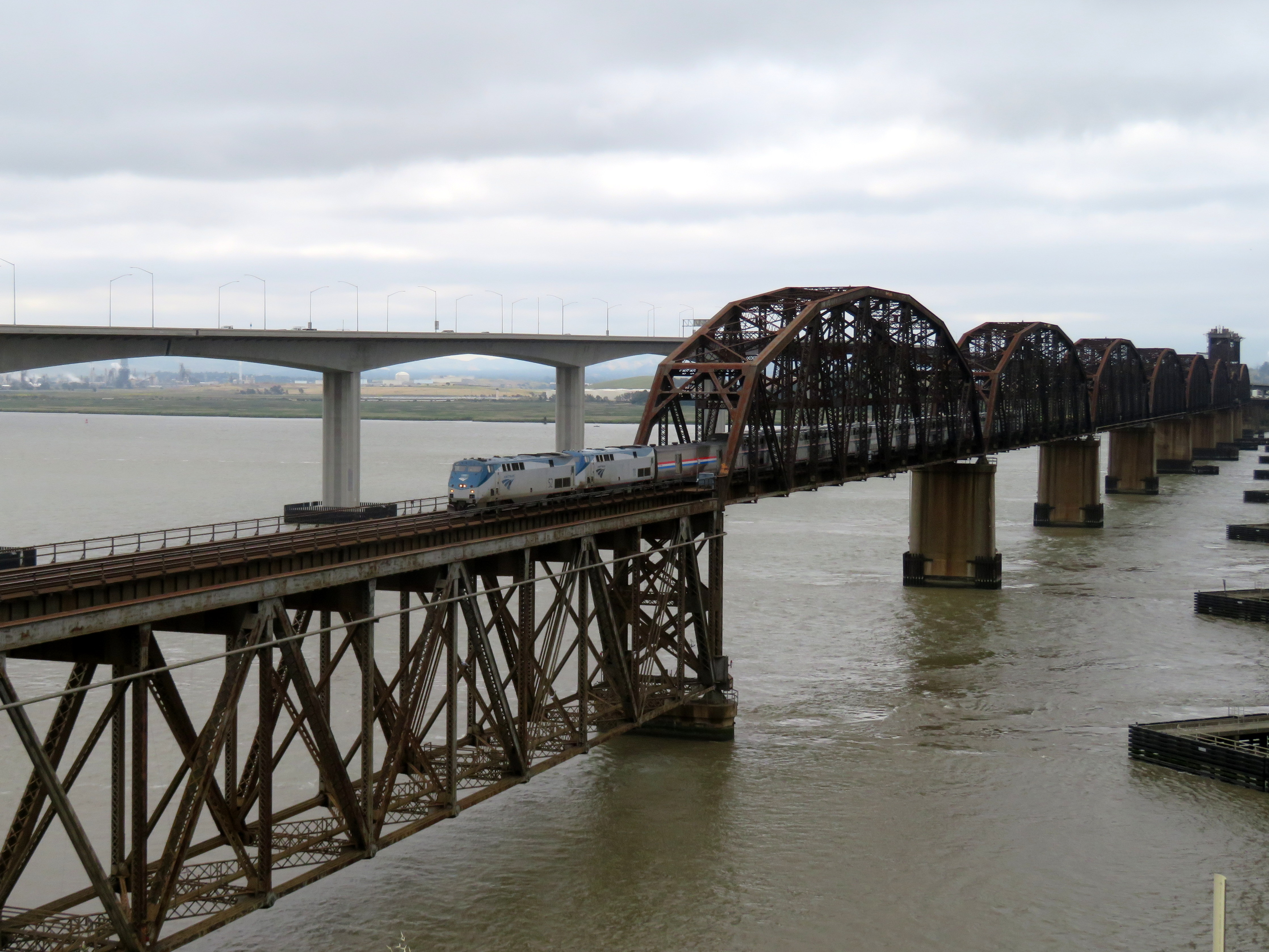 The eastbound California Zephyr crossing the Benicia-Martinez Railroad Drawbridge in May 2019